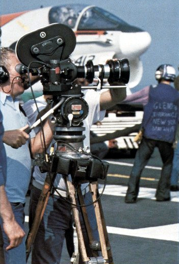 A cameraman filming flight deck scenes aboard the U.S. Navy aircraft carrier USS Nimitz (CVN-68) for the movie "The Final Countdown" in 1979.